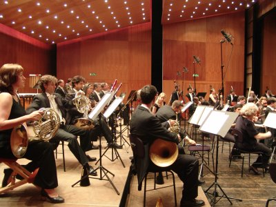 Overview of an acoustic shell with a symphony orchestra.